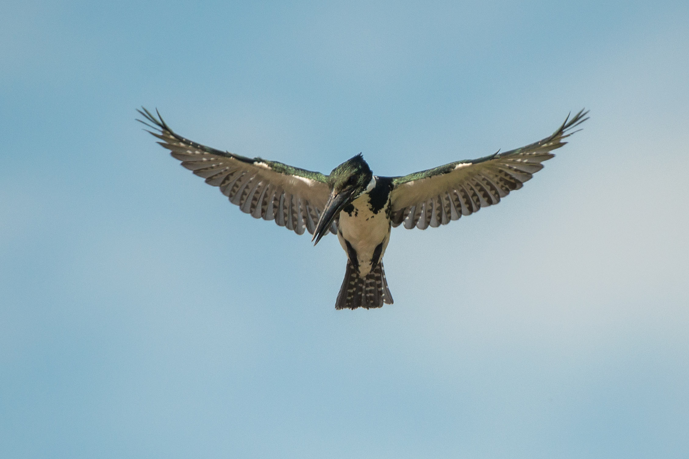 A female amazon kingfisher hovering over the Tarcoles River, Costa Rica.